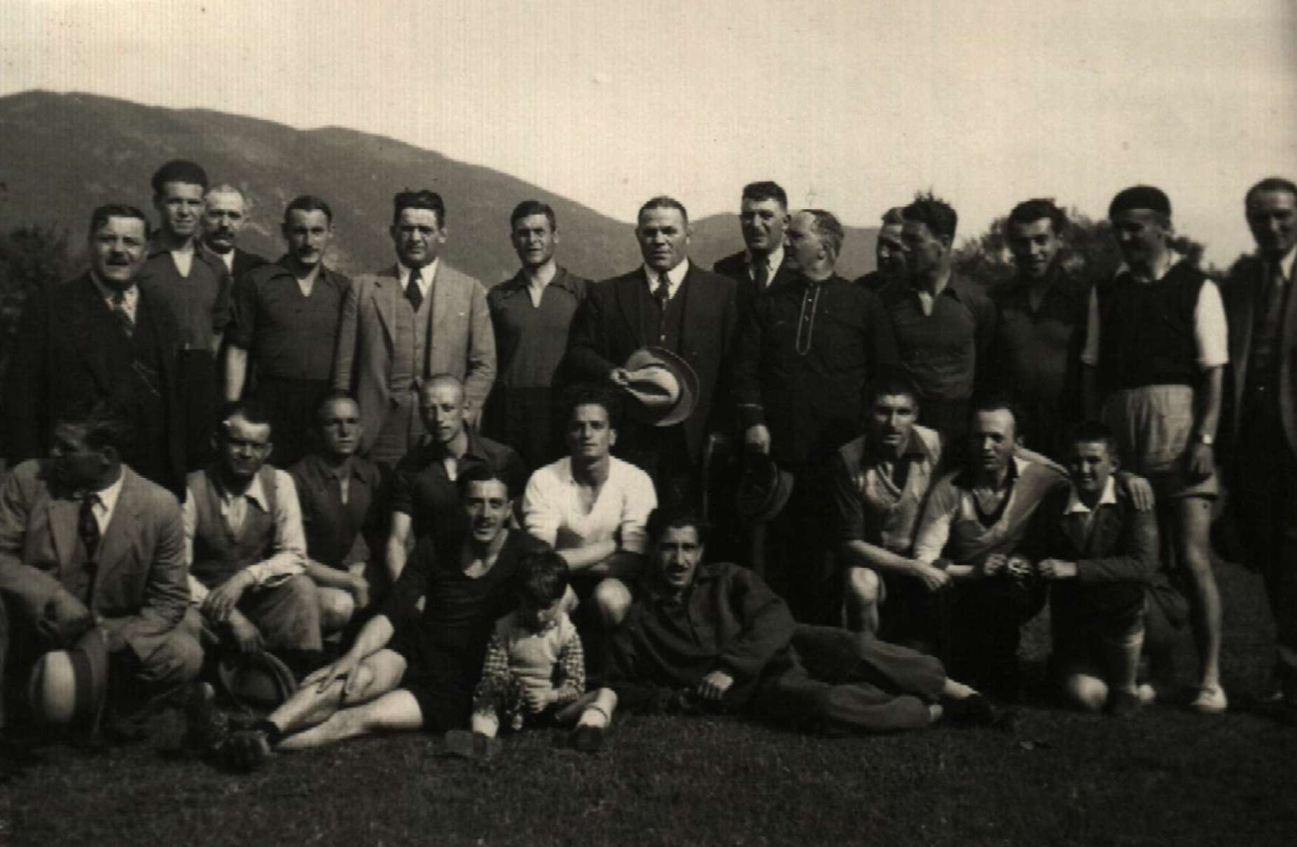 Bulgarian professional wrestler Dan Kolov (1892-1940)